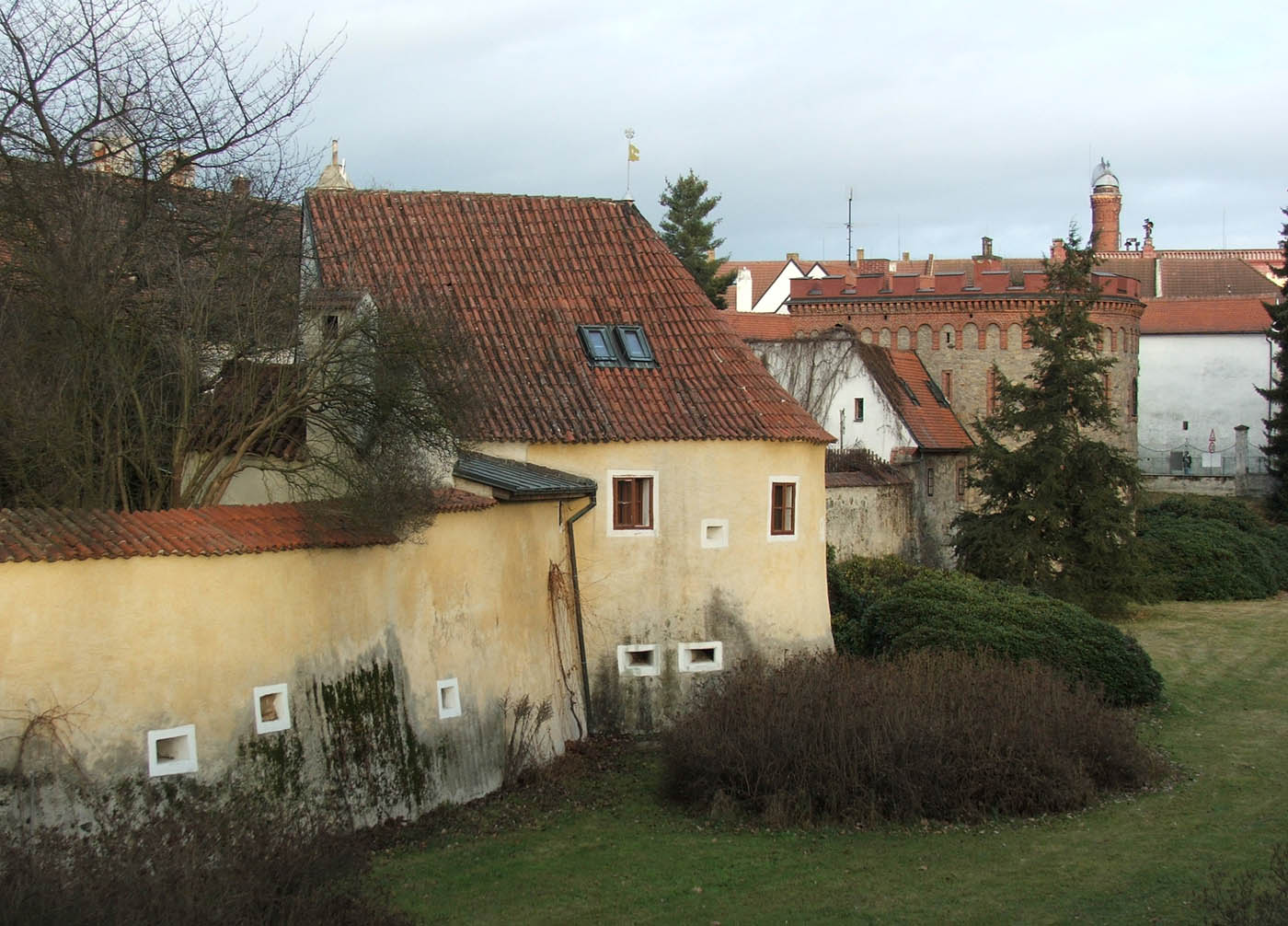 City Třeboň (Czech Republic) - Fortification of Třeboň Castle - winter 2007